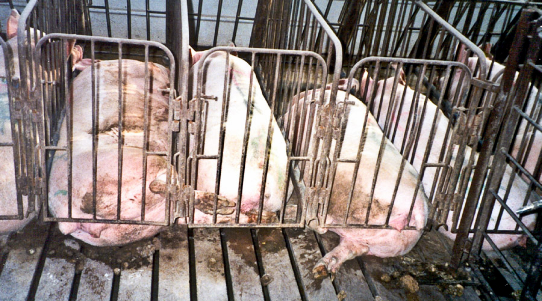 "Female pigs used for breeding (called 'breeding sows' by industry) are confined most of their lives in 'gestation crates' which are so small that they cannot even turn around. The pigs' basic needs are denied, and they experience severe physical and psychological disorders."